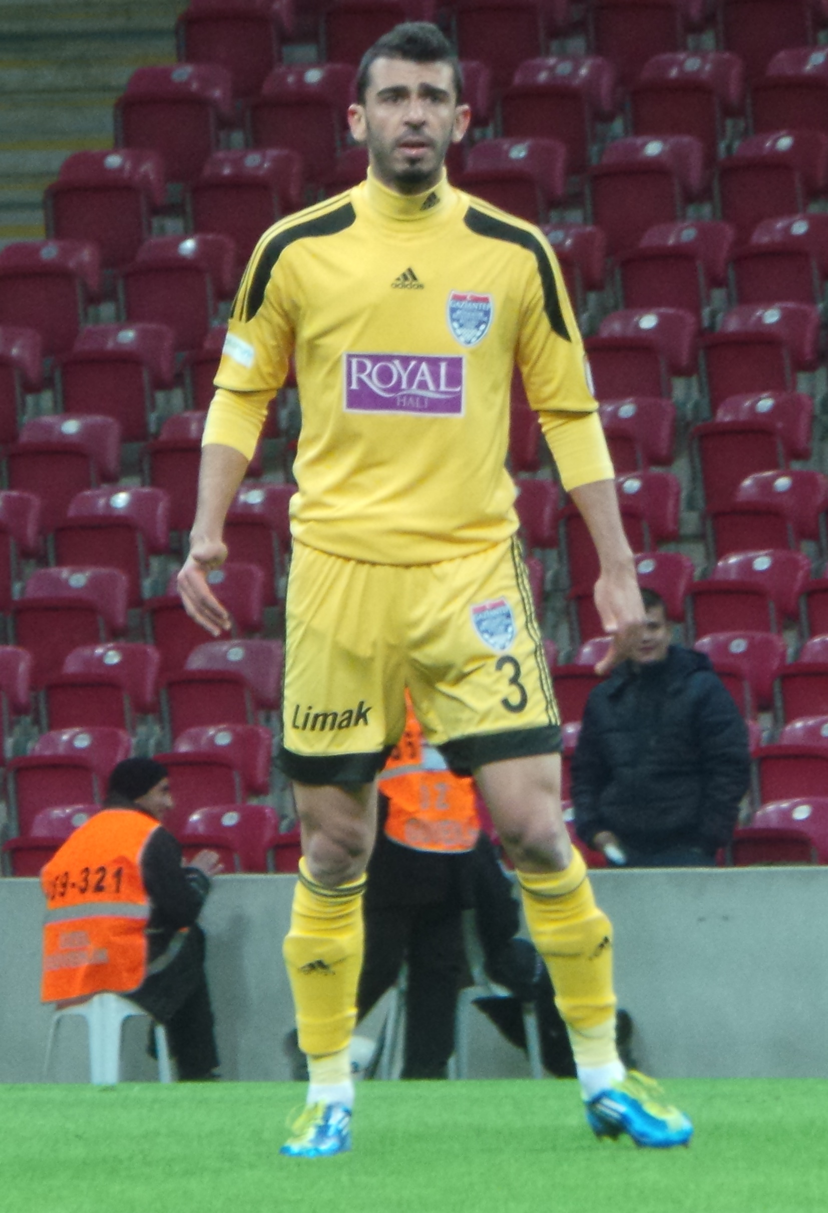 Ferit Cömert